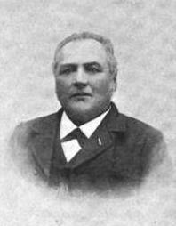 Jens Peter Jørgensen-Gandløse (1848-1909), Danish farmer and politician, MP